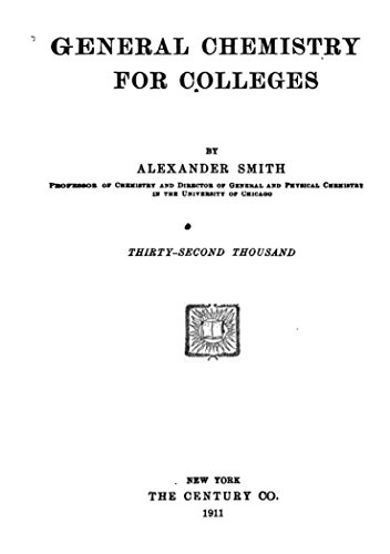 中文（香港）: Alexander Smith's General Chemistry for Colleges